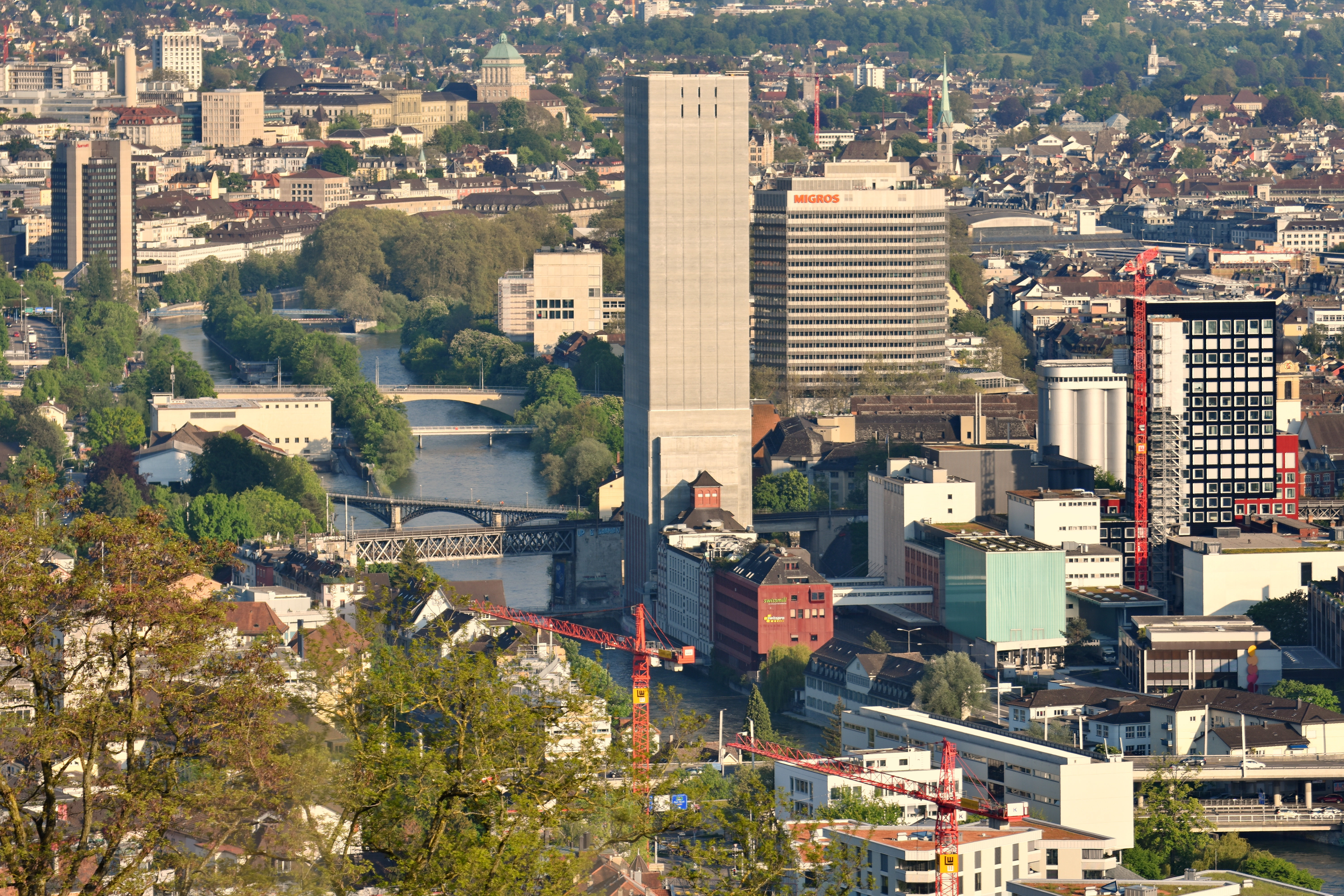 Migros-Hochaus and Swissmill Tower in Zürich-City respectively in the Limmat Valley, as seen from the Käferberg.